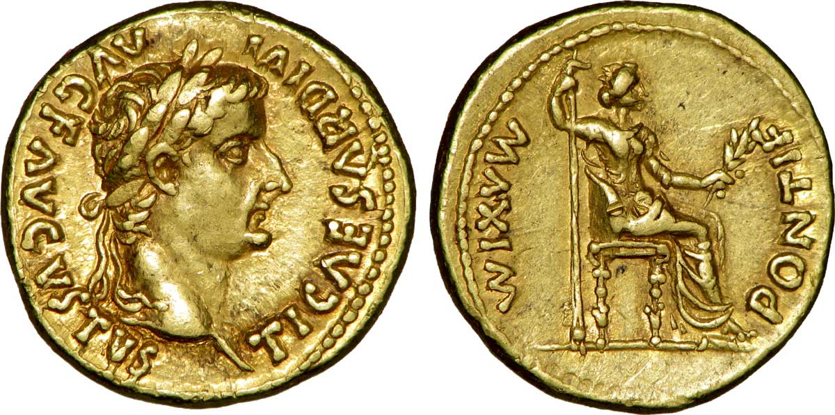 Aureus à l'effigie de Tibère Description avers : Tête laurée de Tibère à droite (O*) . Traduction avers : “Tiberius Cæsar Divi Augusti Filius Augustus”, (Tibère César fils du divin Auguste, auguste) . Date : c. 27-30 Description revers : Pax (la Paix) ou Livie assise à droite sur un siège décoré, tenant une branche d'olivier de la main gauche et de la droite un long sceptre bouleté à son extrémité . Traduction revers : “Pontifex Maximus”, (Grand pontife) .